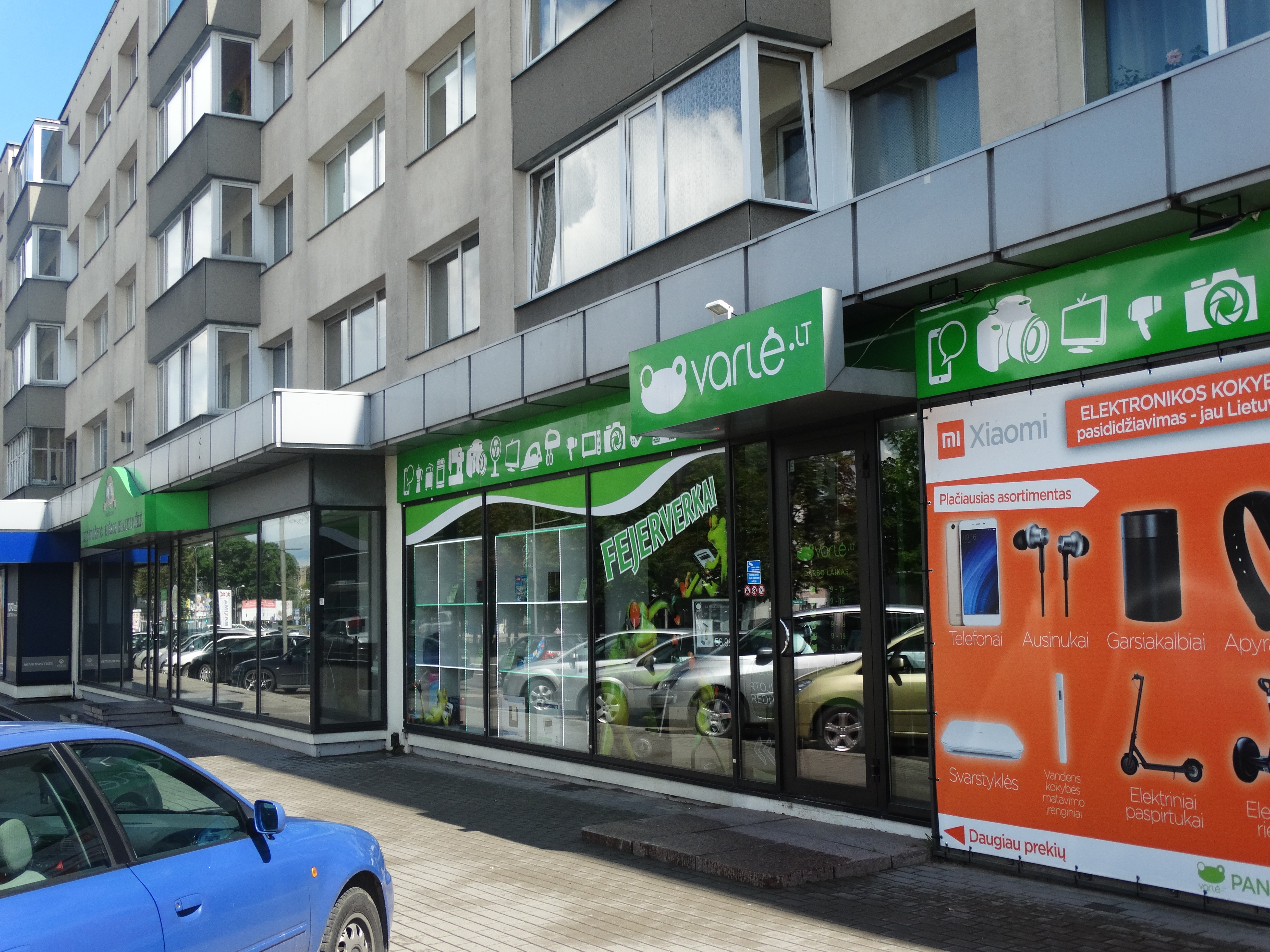 E-commerce company Varlė, Panevėžys, Lithuania